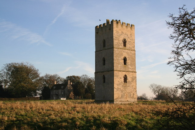 Kyme Tower. Built between 1338 and 1381 by Sir Gilbert de Umfraville, the 77ft high tower stands inside a larger moated area, presumably part of a larger complex of buildings. The 18th century Manor House and the remains of the priory church stand nearby.